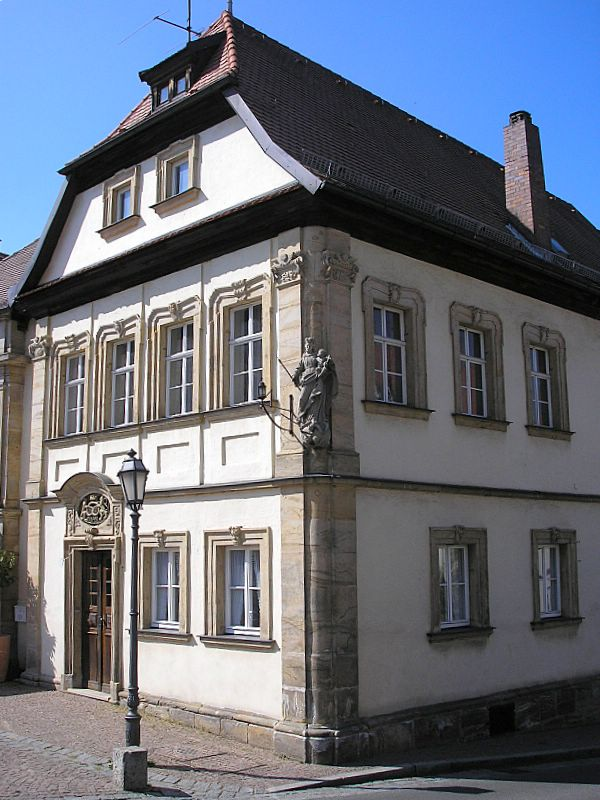 Ebern (Landkreis Haßberge, Lower Franconia, Germany). Baroque residence at the market place (ca. 1720)